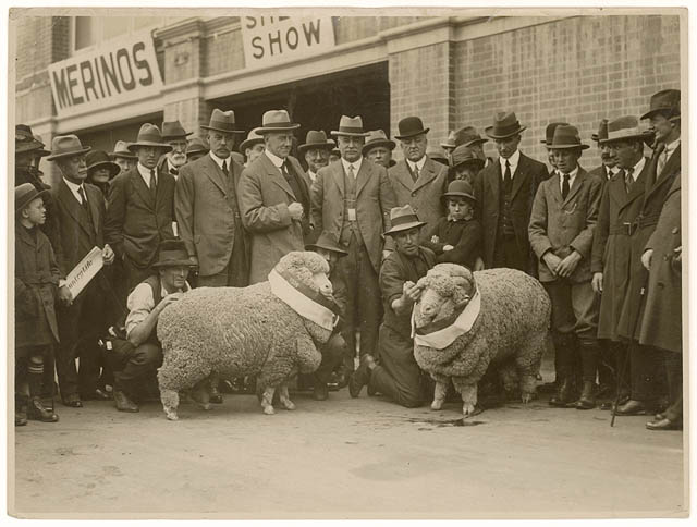 Format: Photoprint Notes: Find more detailed information about this photograph: .au/item/itemDetailPaged.aspx?itemID=153585 Search for more great images in the State Library's collections: .au/search/SimpleSearch.aspx From the collection of the State Library of New South Wales